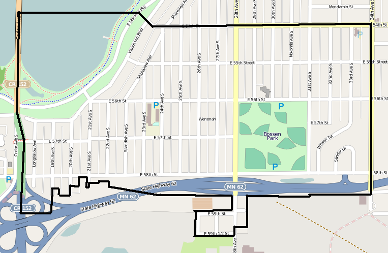 Map of Wenonah, Minneapolis This map of Wenonah, Minneapolis was created from OpenStreetMap project data, collected by the community. This map may be incomplete, and may contain errors. Don't rely solely on it for navigation.